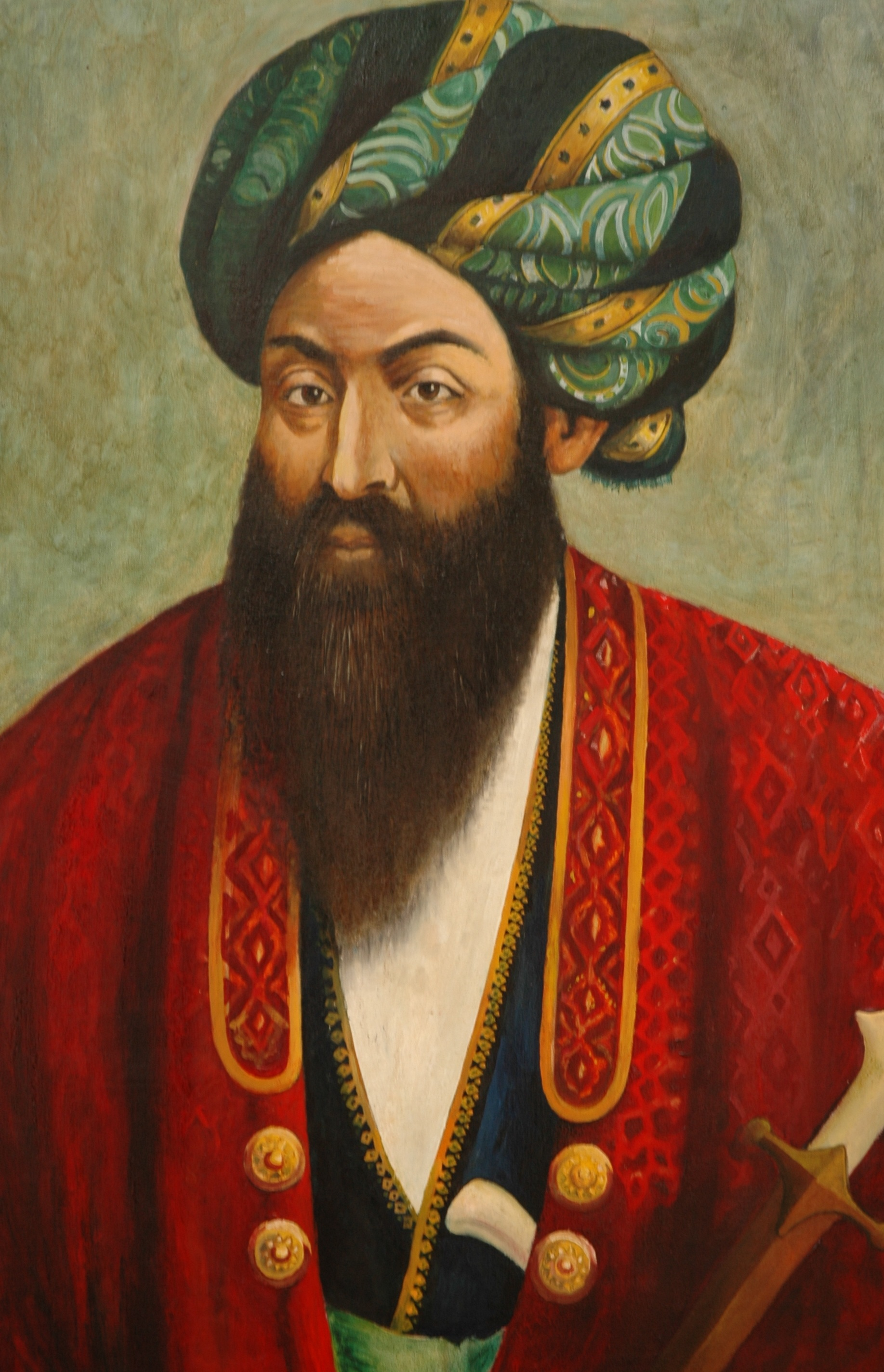 Painting of Jan-Fishan Khan, born as Sayyid Mohammad Shah, of Afghanistan